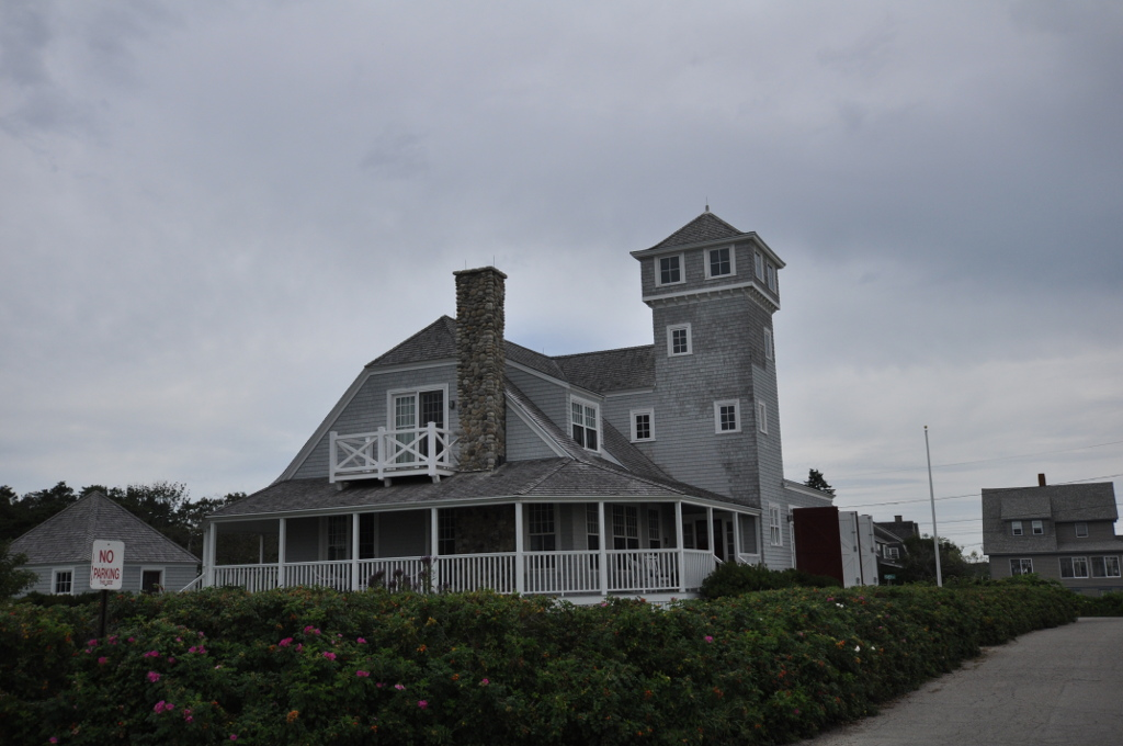 The former Fletcher's Neck Lifesaving Station, Biddeford Pool, Maine. Note that this is the 1938 building, not the National-Register-listed 1874 building, which stands (from the perspective of this photo) behind.